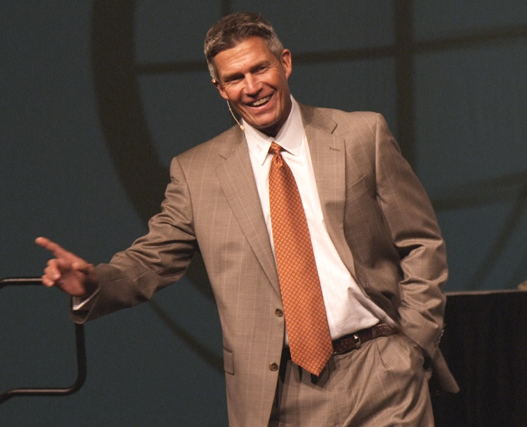 Paul Orberson speaking at a convention.